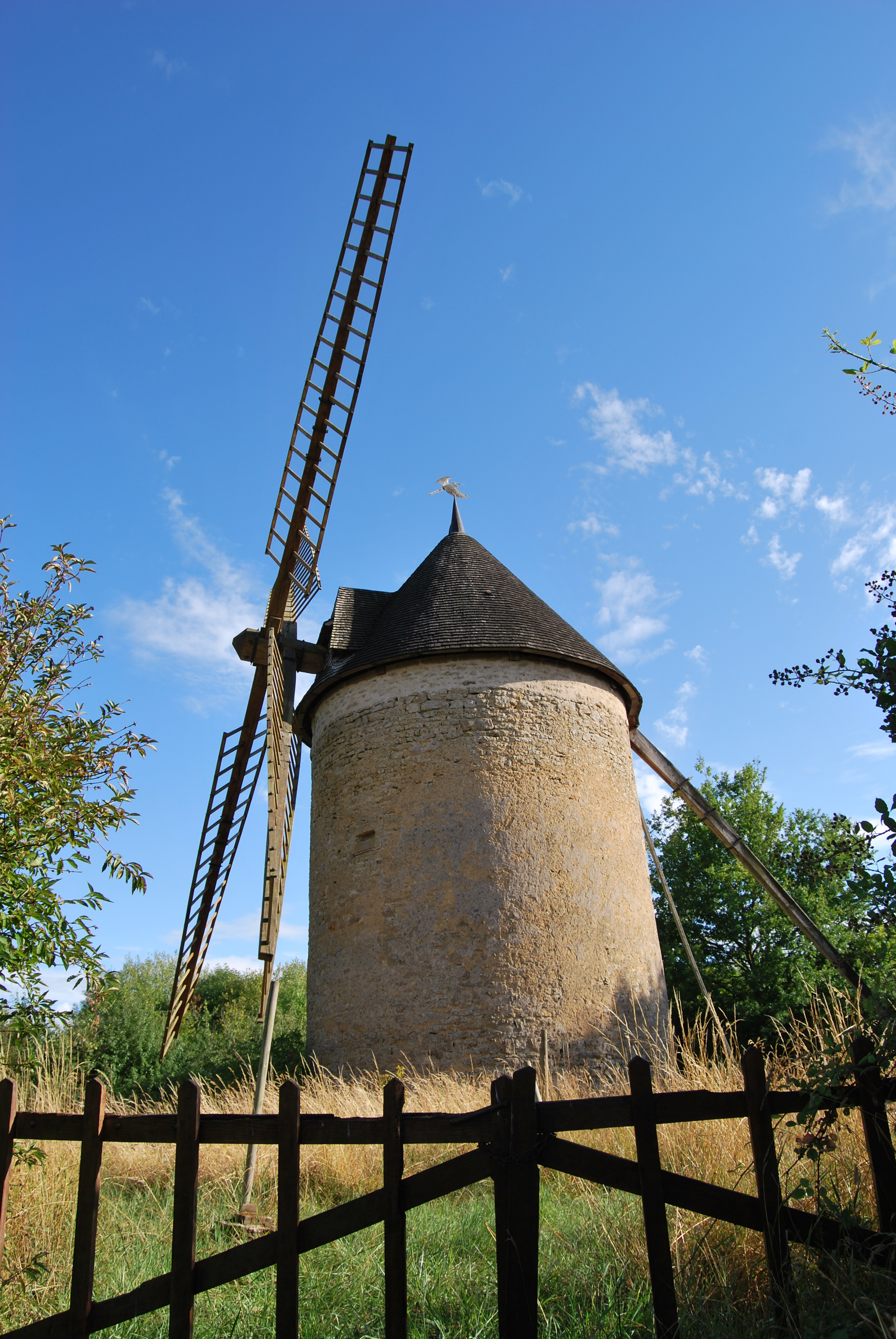 Windmill of Villiers (Chassy, Centre, France), built during the first half of the 16th century.